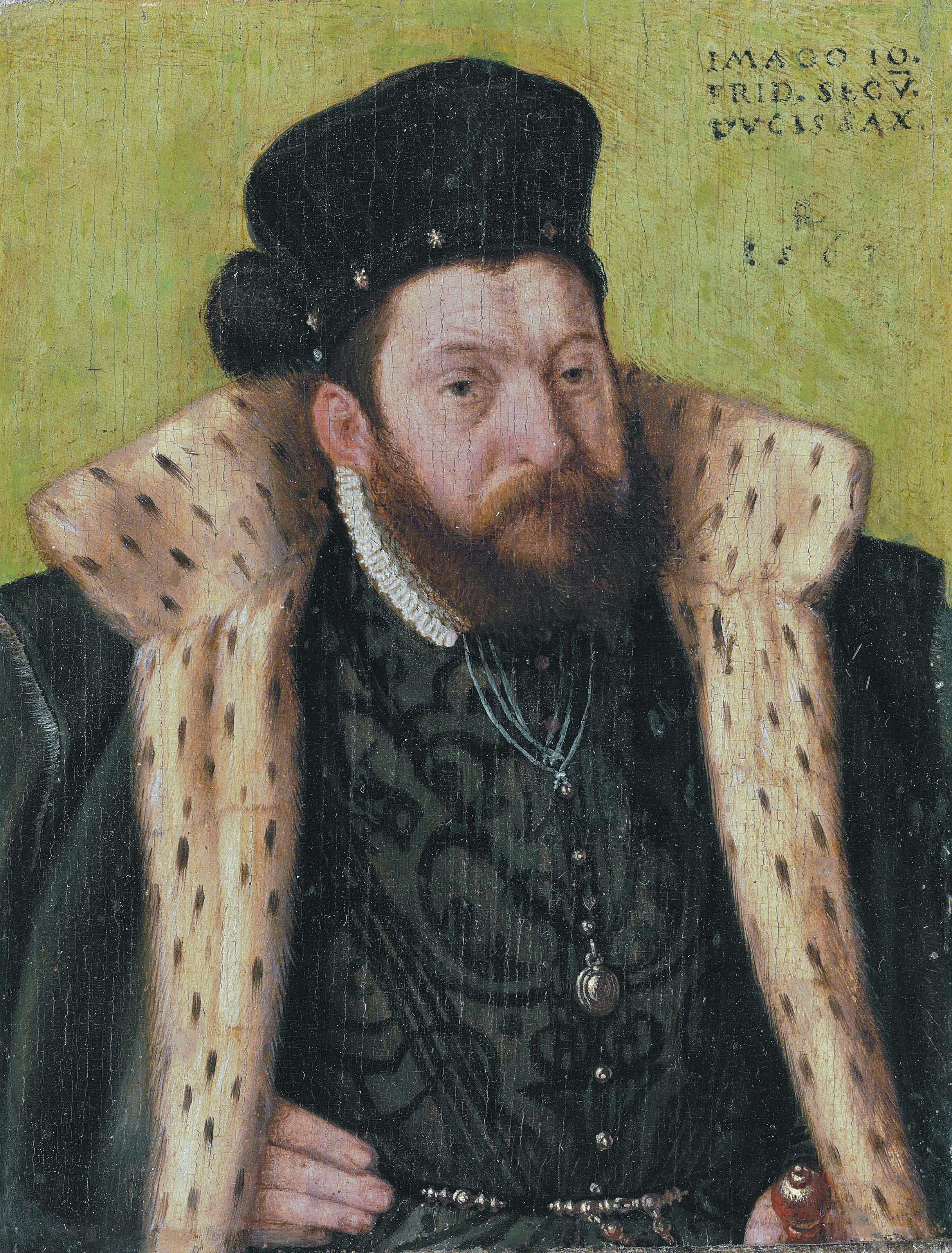 Johann Friedrich II, Duke of Saxony (1529-1595) oil on panel 12.1 x 8.9 cm inscribed t.r.: IMAGO I0. / FRID.SECV. / DVCIS SAX signed: ? / 1567(?)